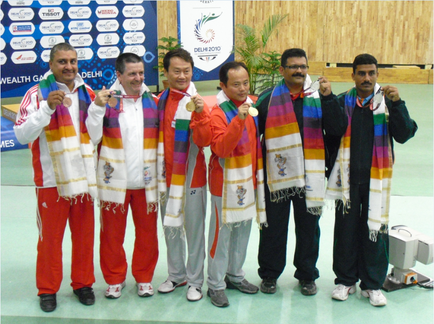 Medalists of the 25 metre standard pistol pairs men at the 2010 Commonwealth Games in Delhi. From the left: Iqbal Ubhi, Michael Gault, Gai Bin, Poh Lip Meng, Samaresh Jung, and Chandrashekar Chaudhary.